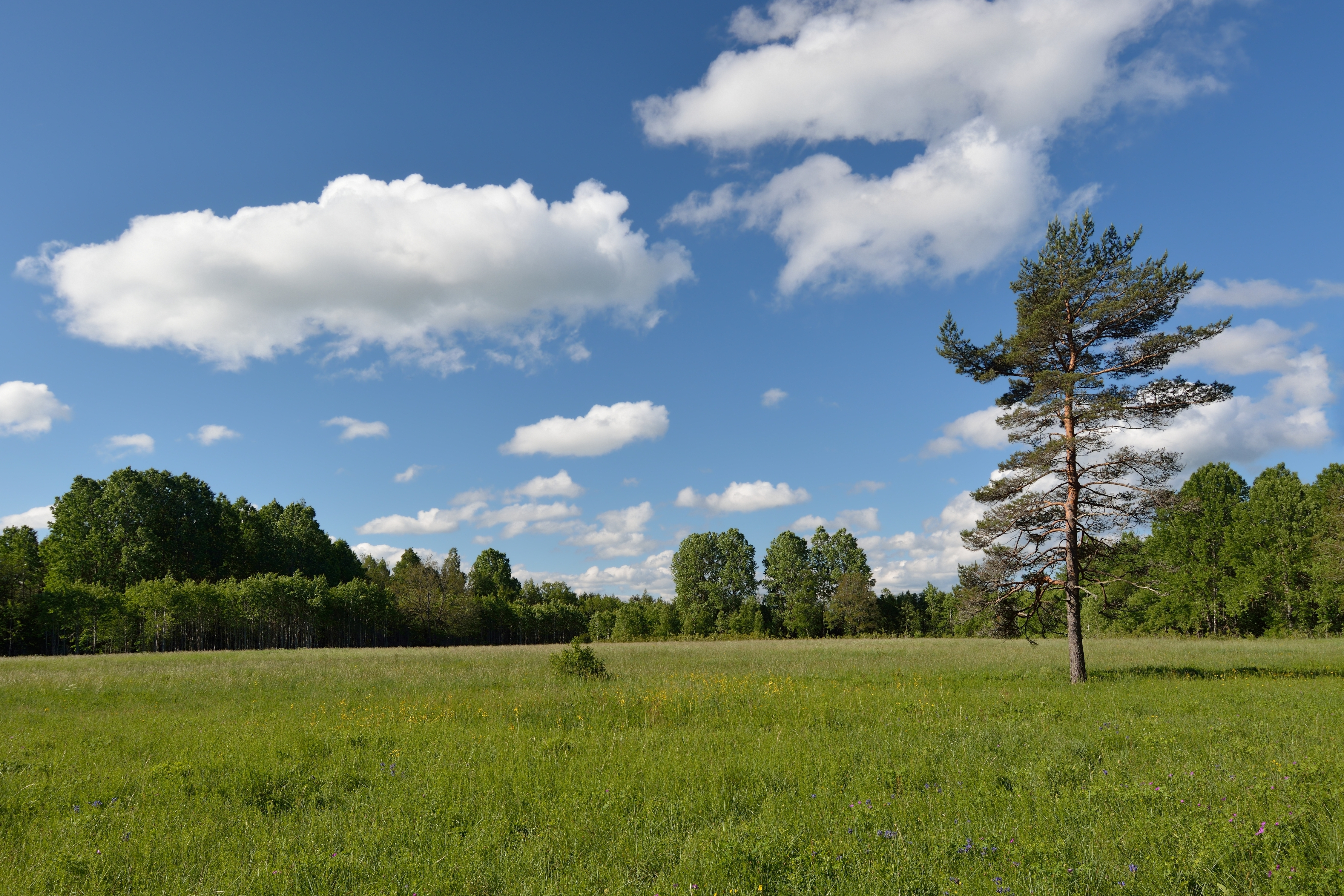 Natural habitat of the Northern Dragonhead (Dracocephalum ruyschiana). Keila, Northwestern Estonia. This specieas belongs to the category II of protected species in the country and also it's included in the list of strictly protected plant species of the Bern Convention (1979).